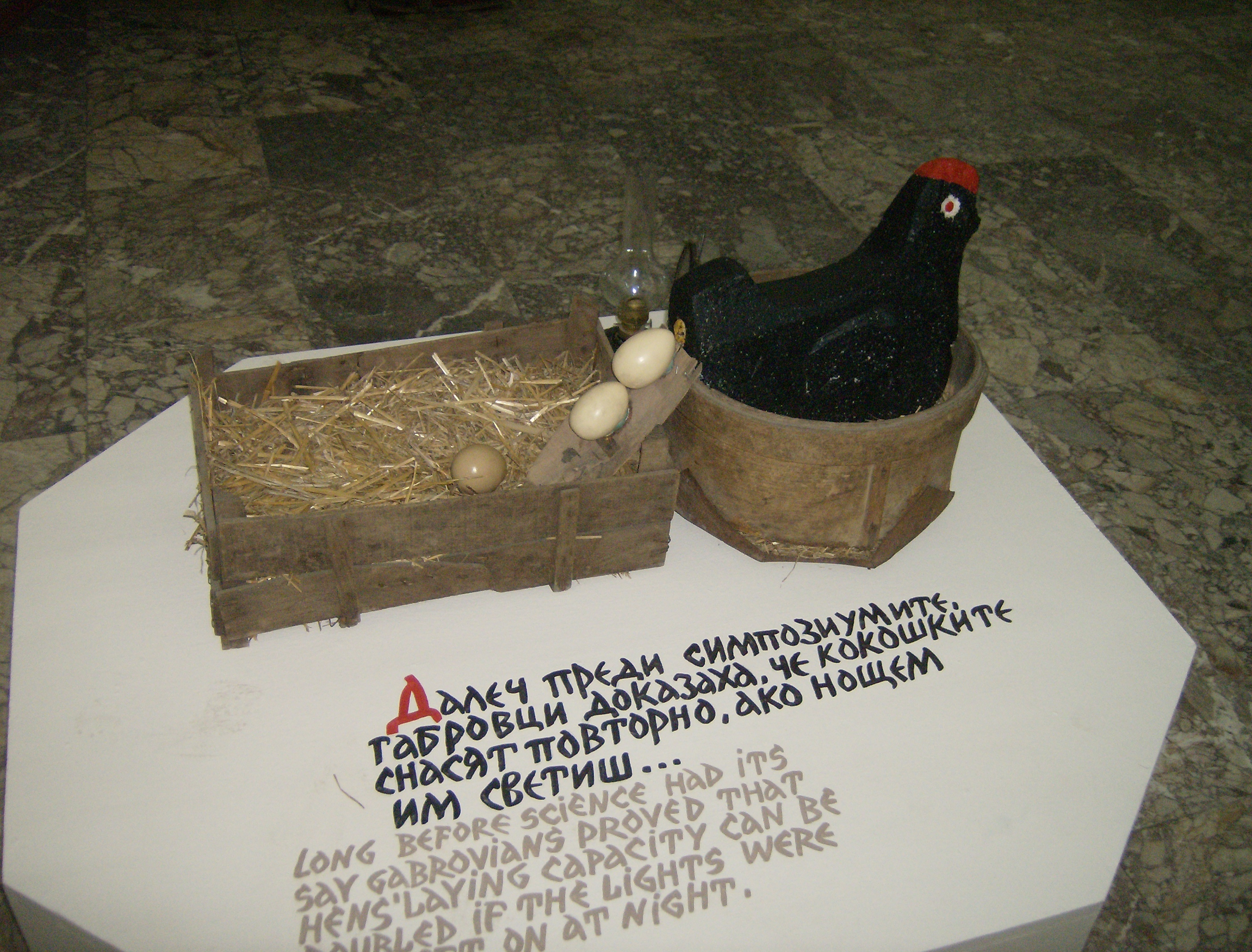 Gabrovo chiken